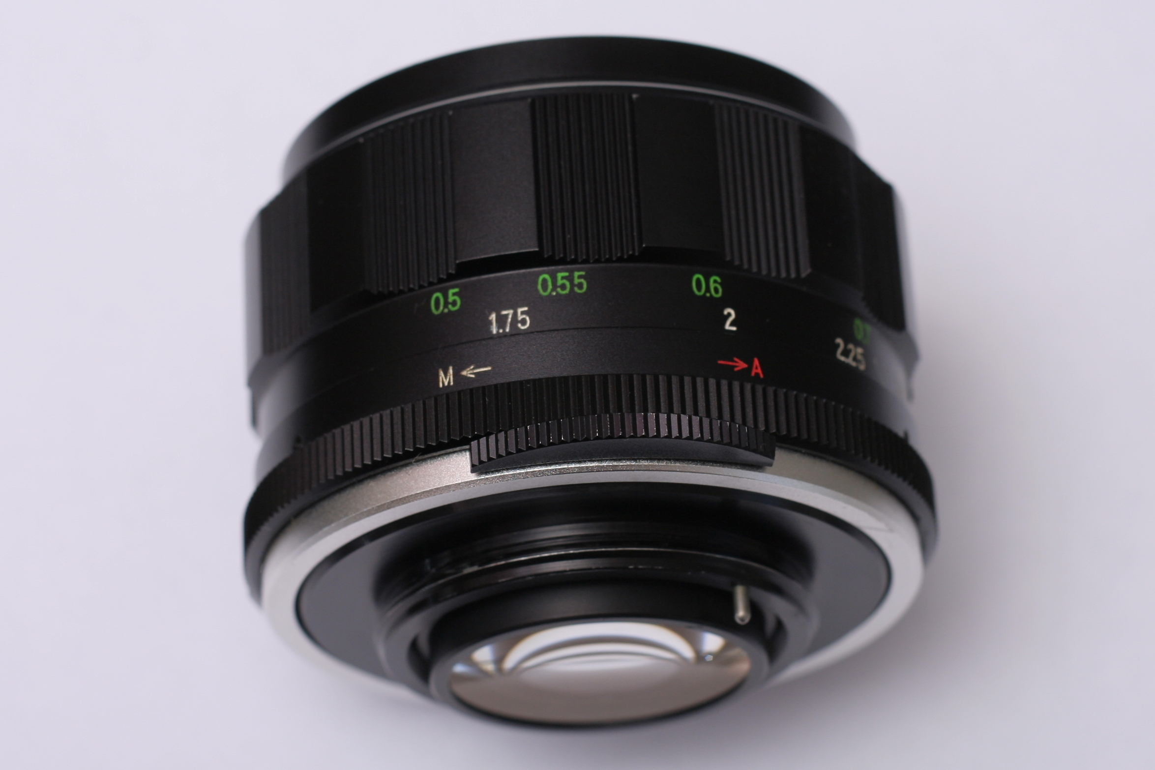 Ricoh Rikenon 55mm f1.4 lens with a M42 mount